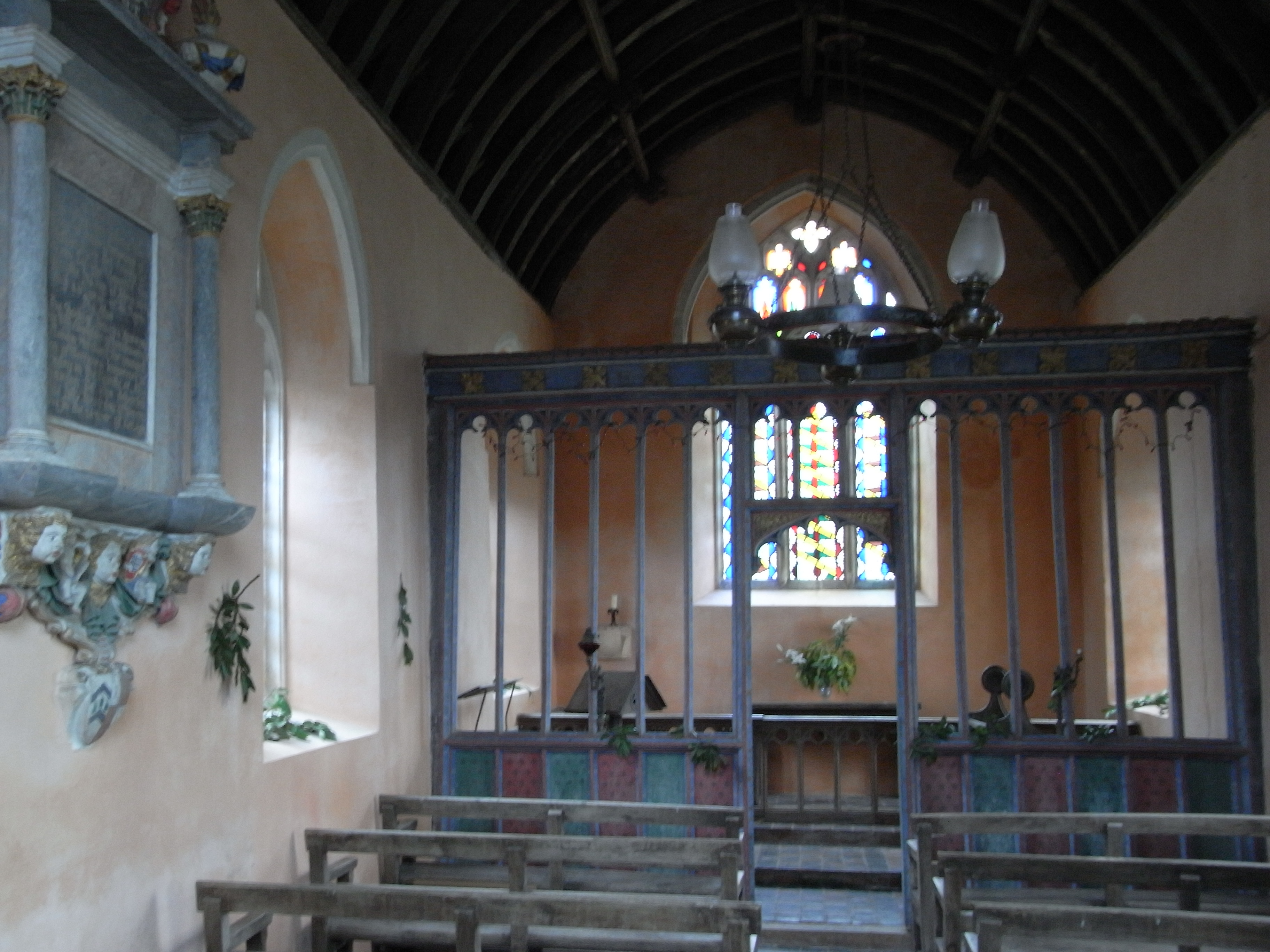 Ayshford Chapel, Ayshford, in Burlescombe Parish, Devon. Interior, looking eastward to the chancel